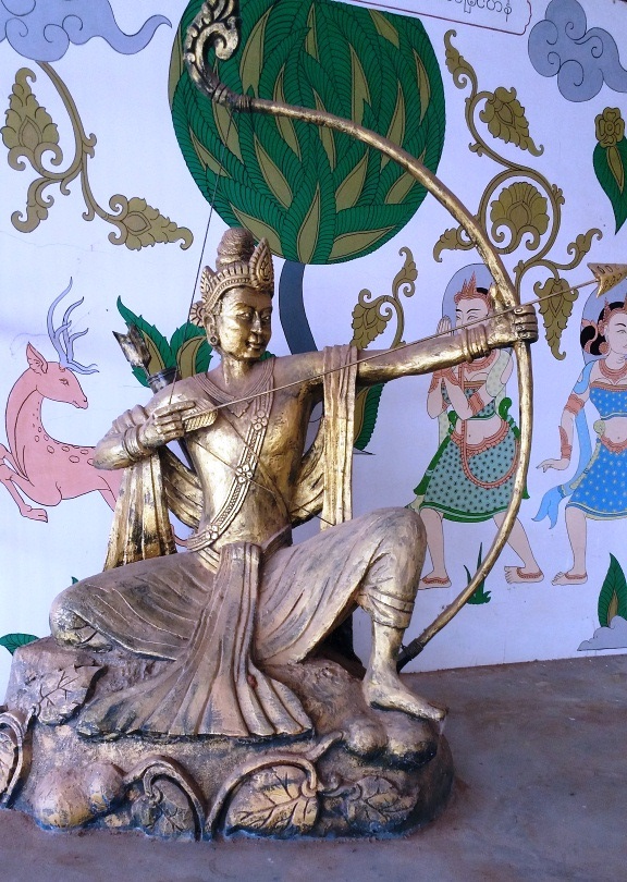 Pyusawhti was a semi-legendary king of Pagan Dynasty of Myanmar.